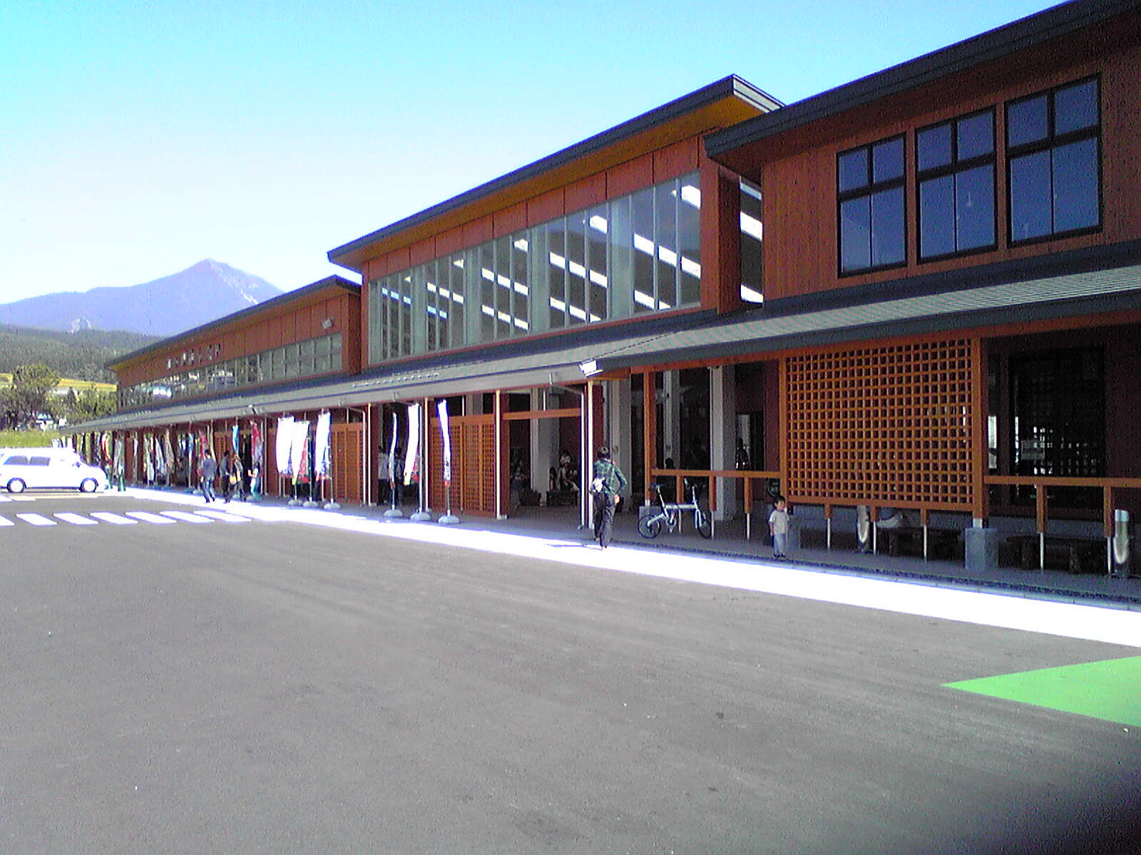 Bandai, Roadside Station, Fukushima, Japan. This photograph was taken near the building.